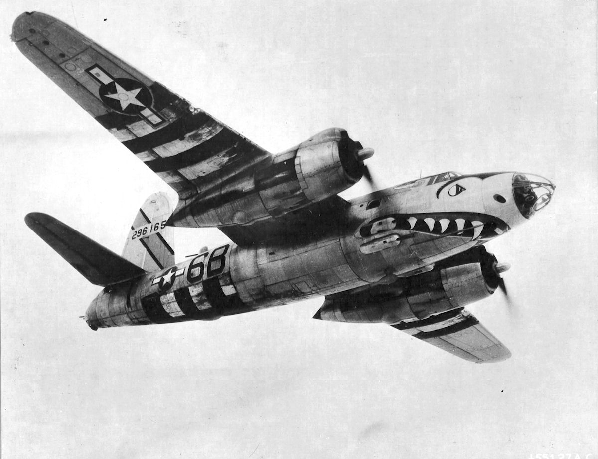 Named "Big Hairy Bird" B-26B-55-MA Marauder Serial number 42-96165 599th Bomb Squadron, 397th Bomb Group, 9th Air Force Taken 1 December 1944